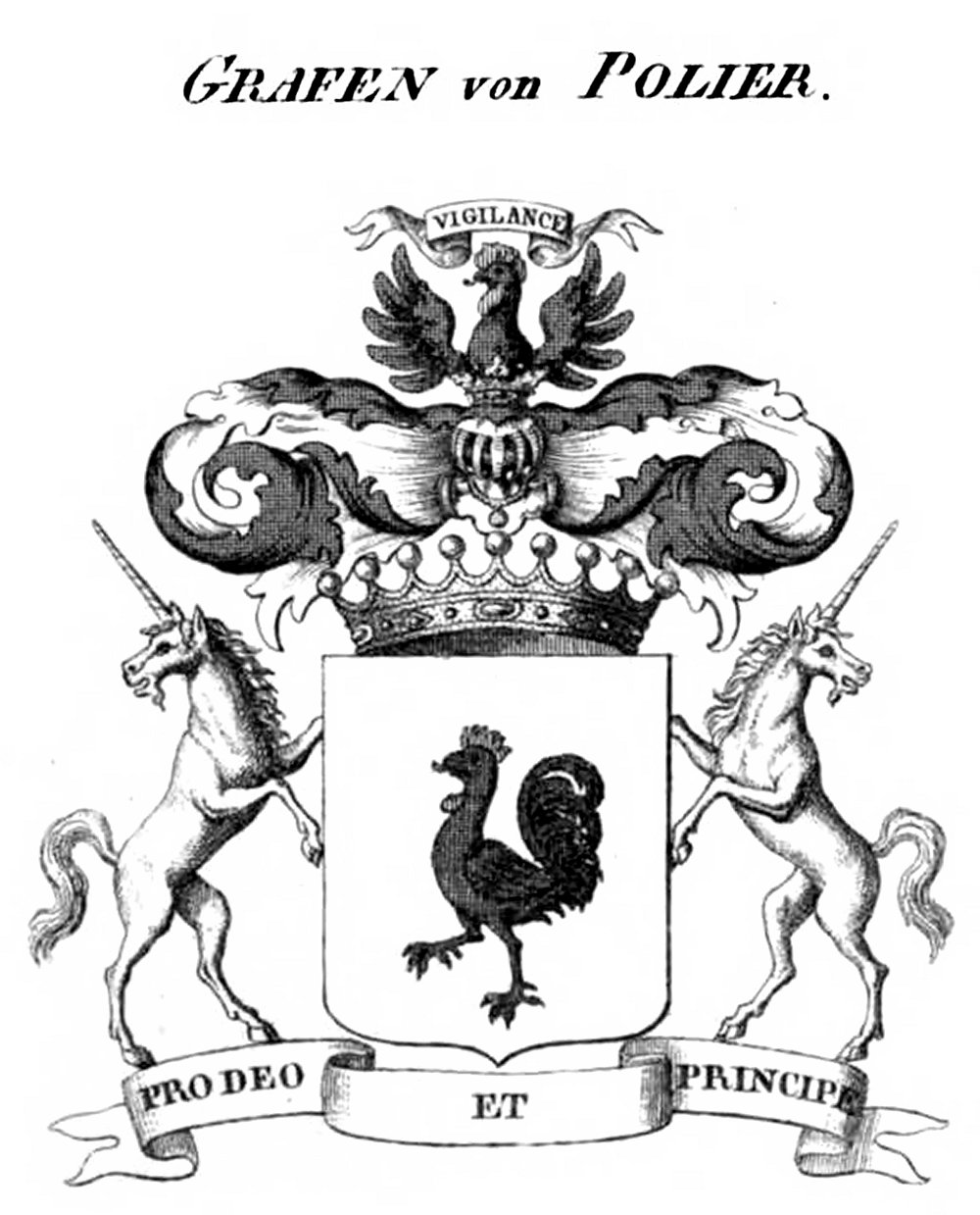 Wappen Polier 2 - Tyroff AT.jpg